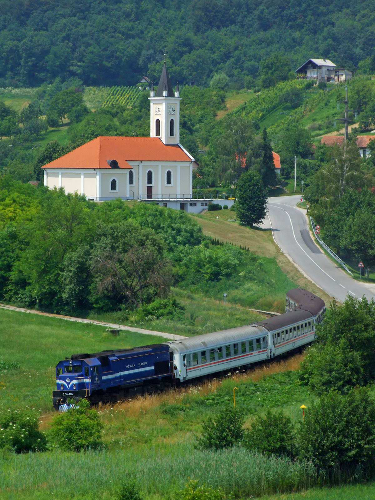 Passenger train near Podrute in Varaždin County in Croatia. Locomotive is HŽ 2044 series, number 005.